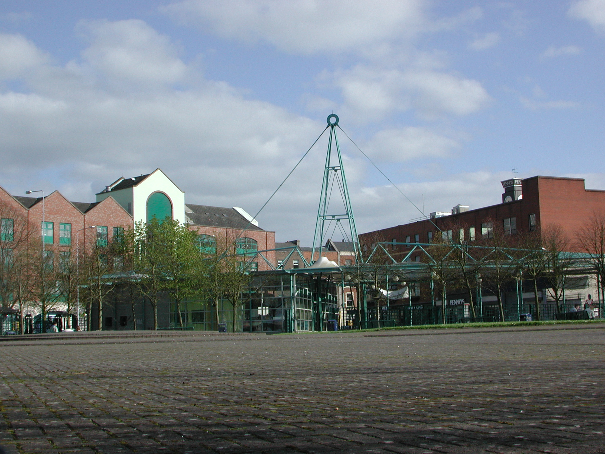 Aras Failte Luimnigh ar Che Artuir. Togtha sa bhlian 2001 ag Sean an Scuab.